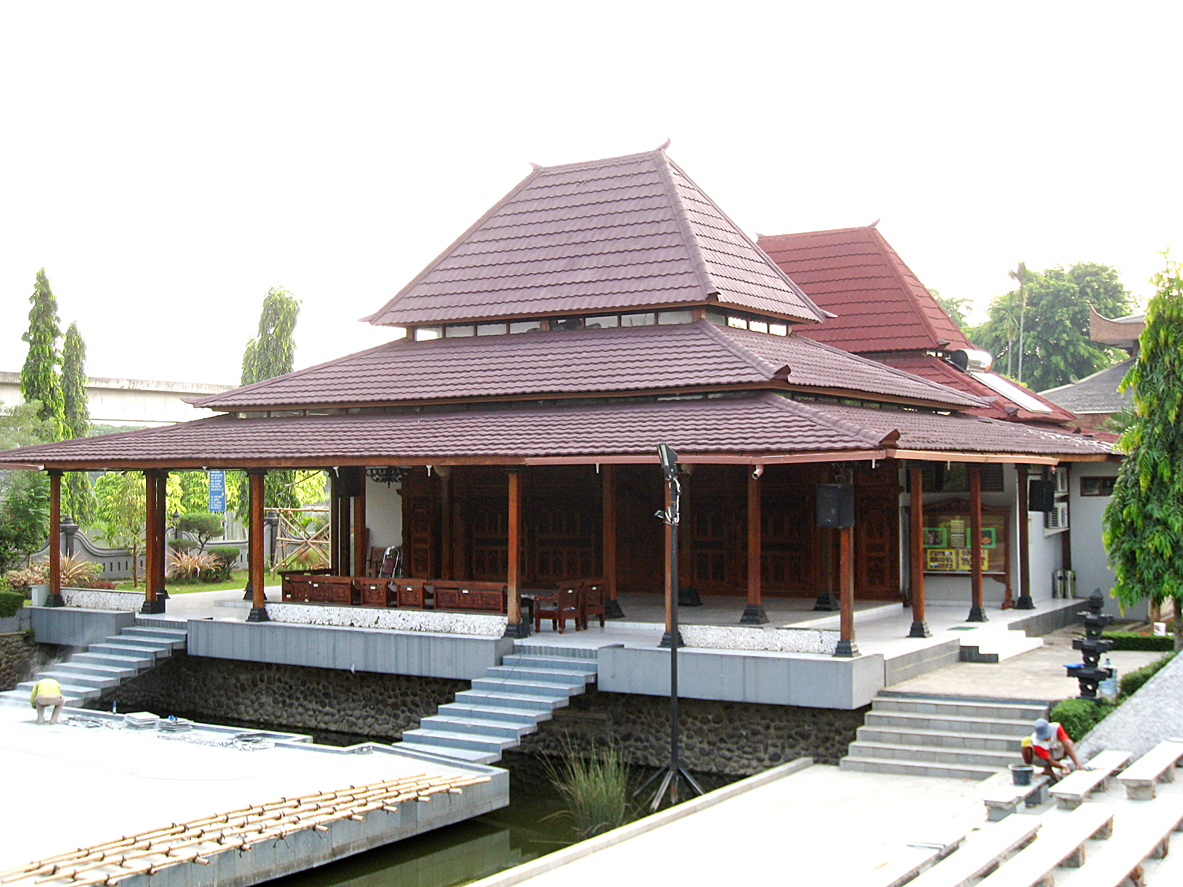 The Central Javanese Pavilion's pendopo at Taman Mini Indonesia Indah, Jakarta.